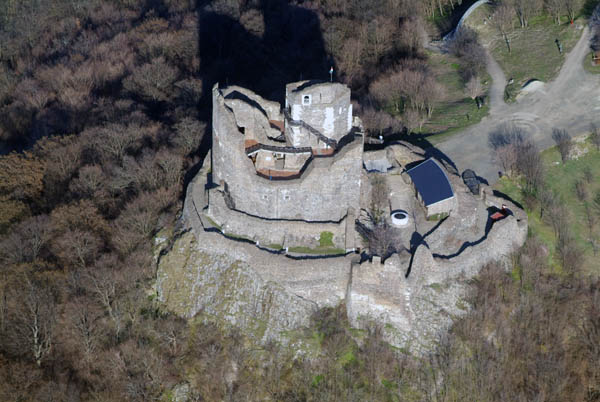 Hollókő, Castle, Hungary, aerial photography This is a photo of a monument in Hungary. Identifier: 6601